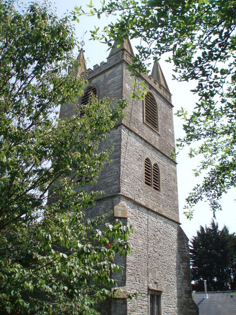 St Peter's church, Marksbury. The church, dedicated to St. Peter, is an ancient structure, with a tower containing six bells. It is believed to be late 12th Century in origin but mainly from the 15th century.